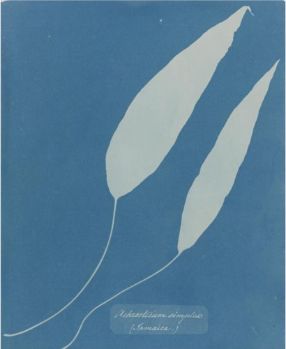 Achrosticum Simplex